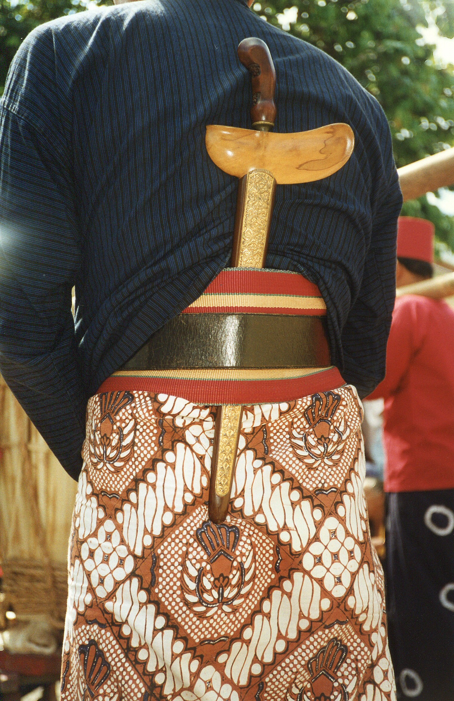 Formal Batik Sarong worn by guard with sword at Sultan's Palace,Yogyakarta